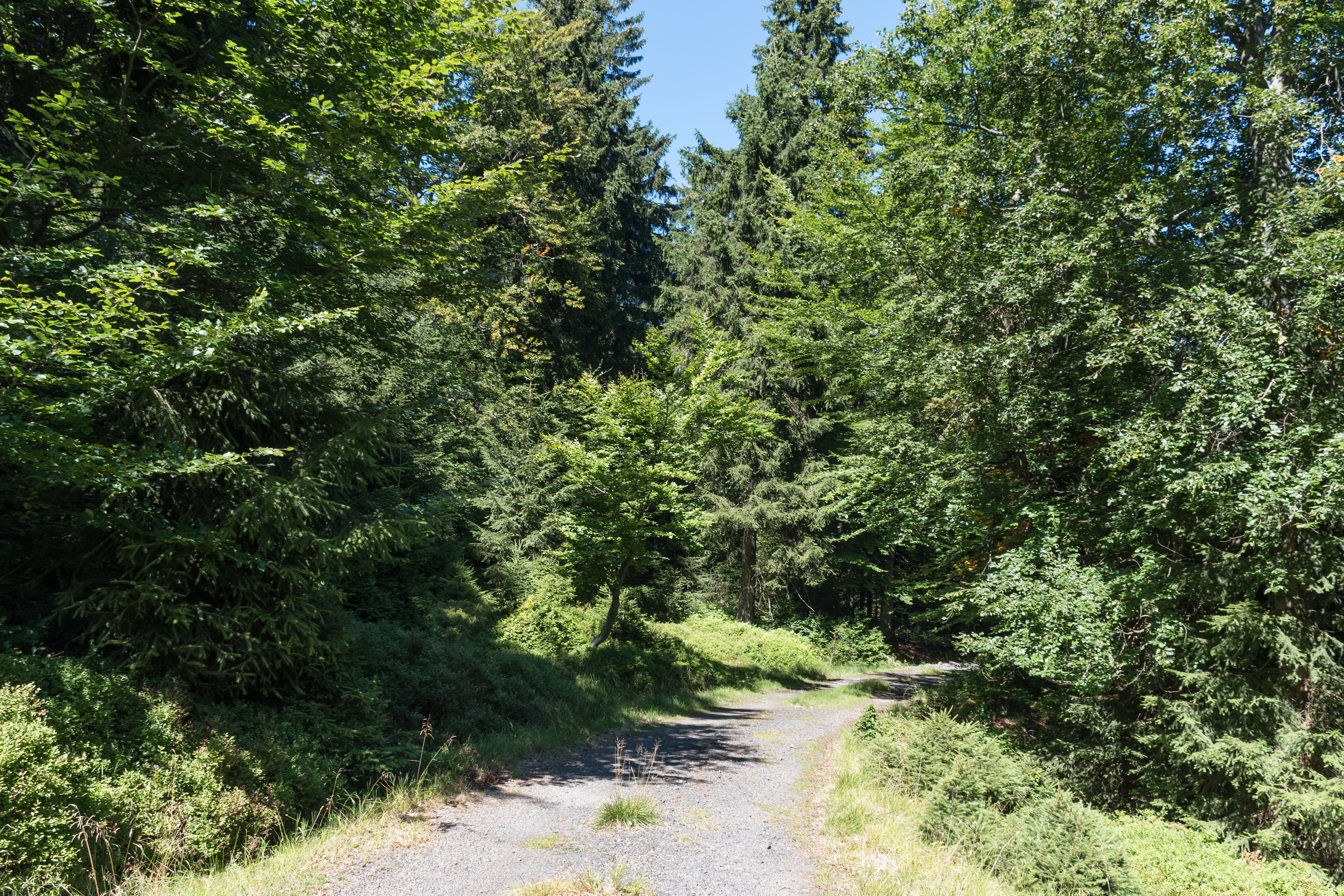 Dukt Nad Spławami, Bialskie Mountains, Sudetes